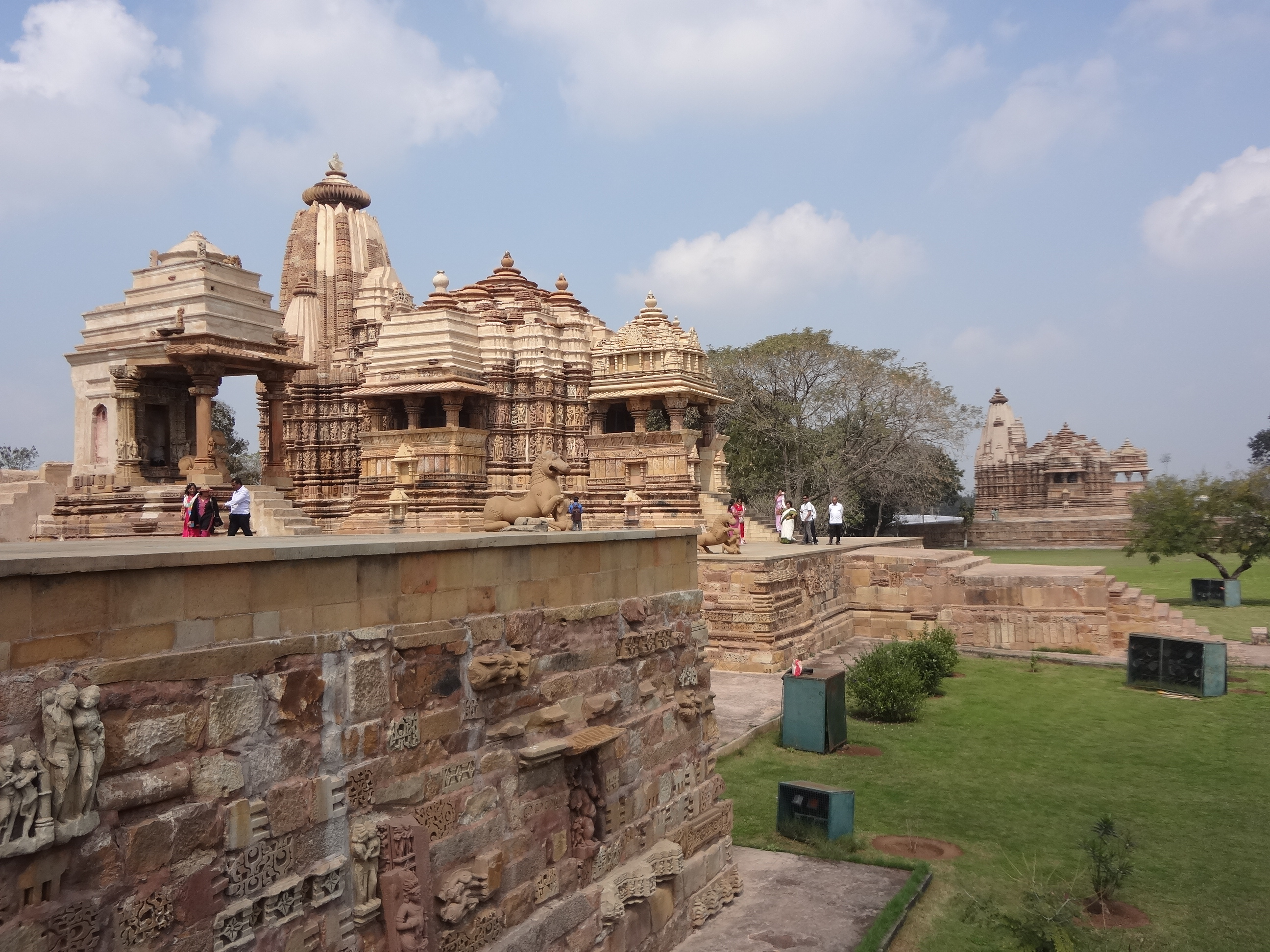 Visvanatha temple